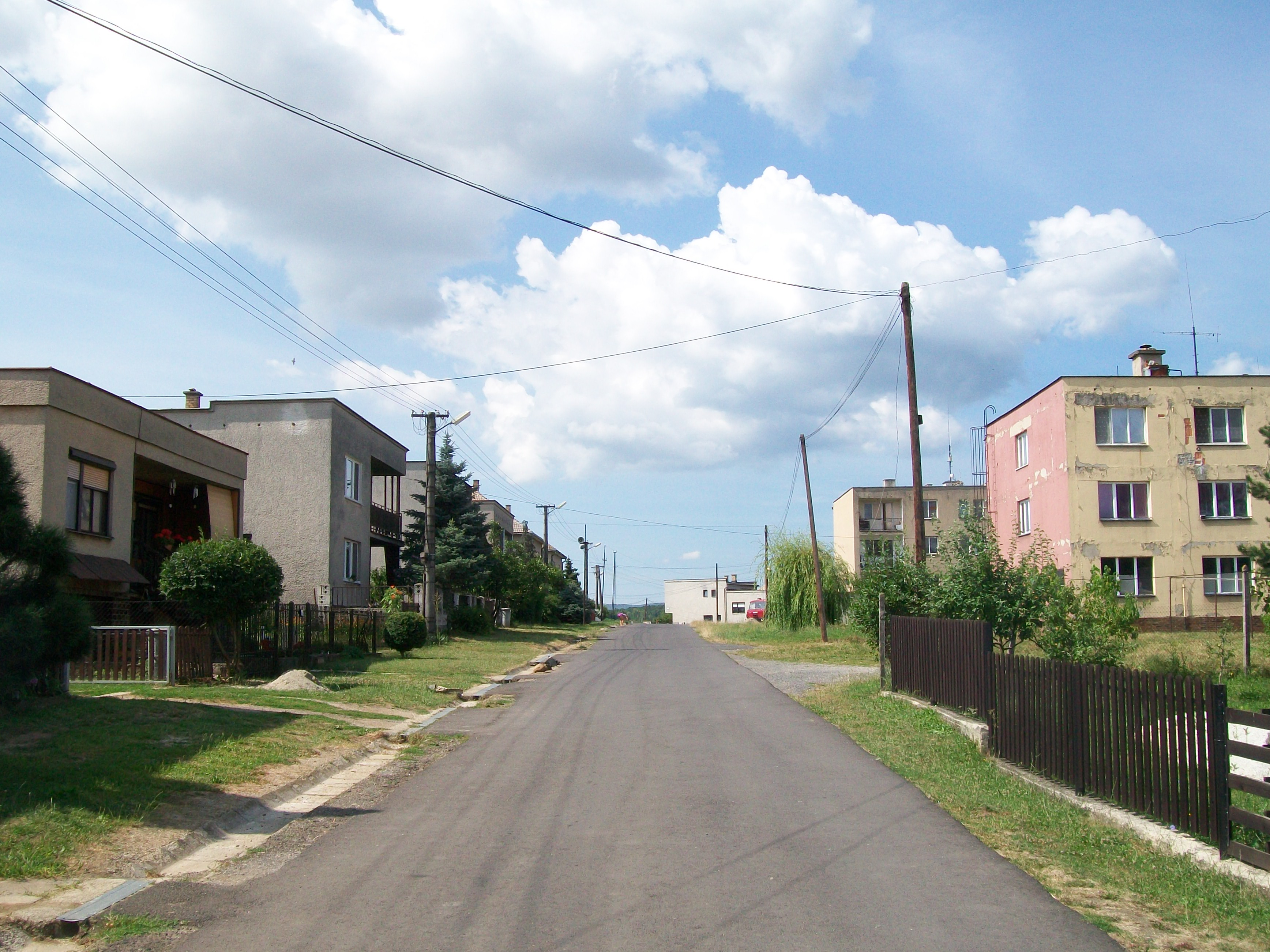 Street of the village PodrečanySlovenčina: Ulica obce Podrečany